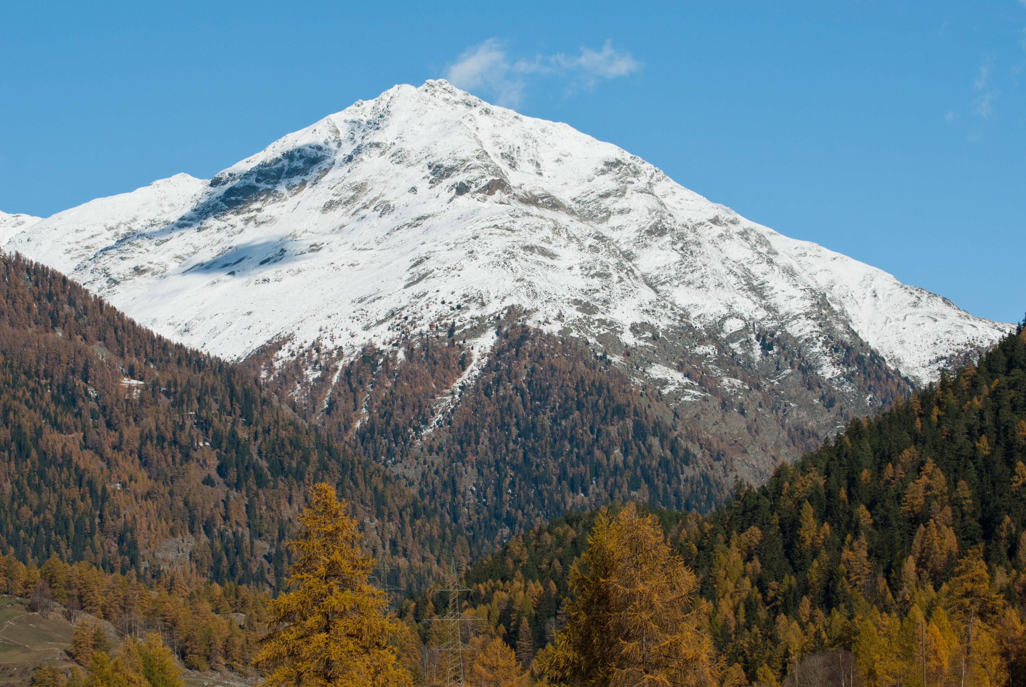 Piz Chapisun seen from south